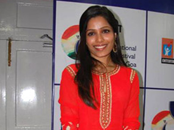 Freida Pinto and Michael Winterbottom at the press meet of Trishna